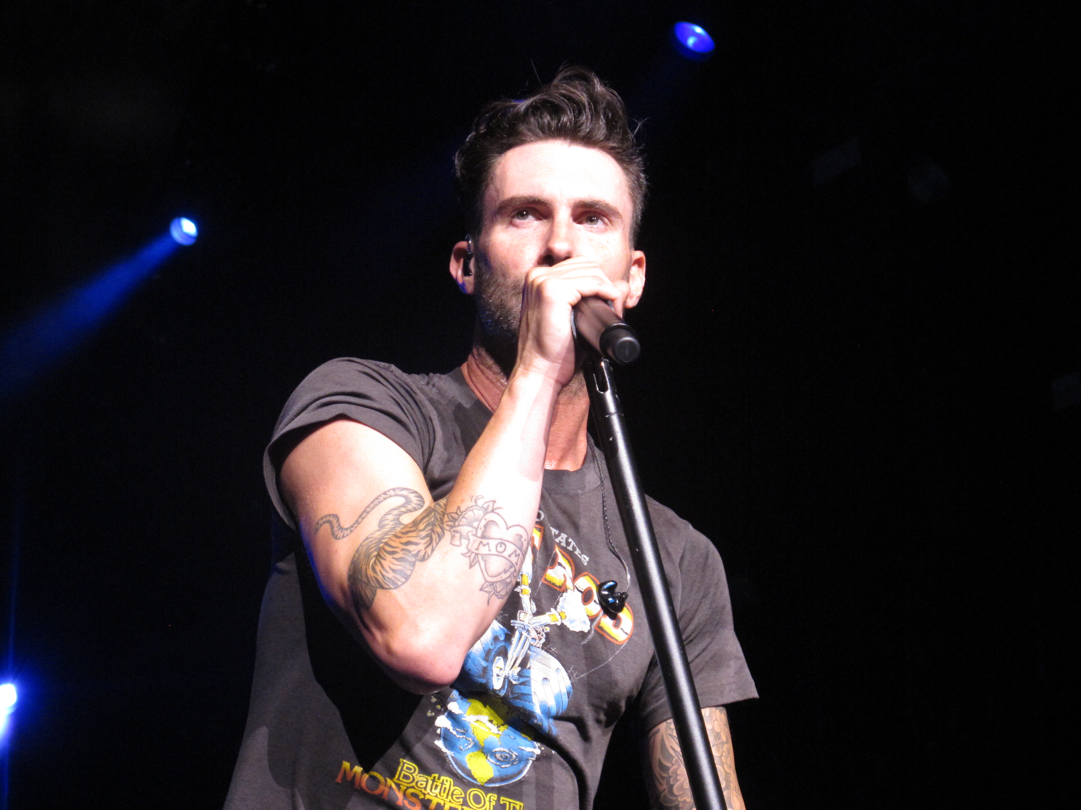 Adam Levine